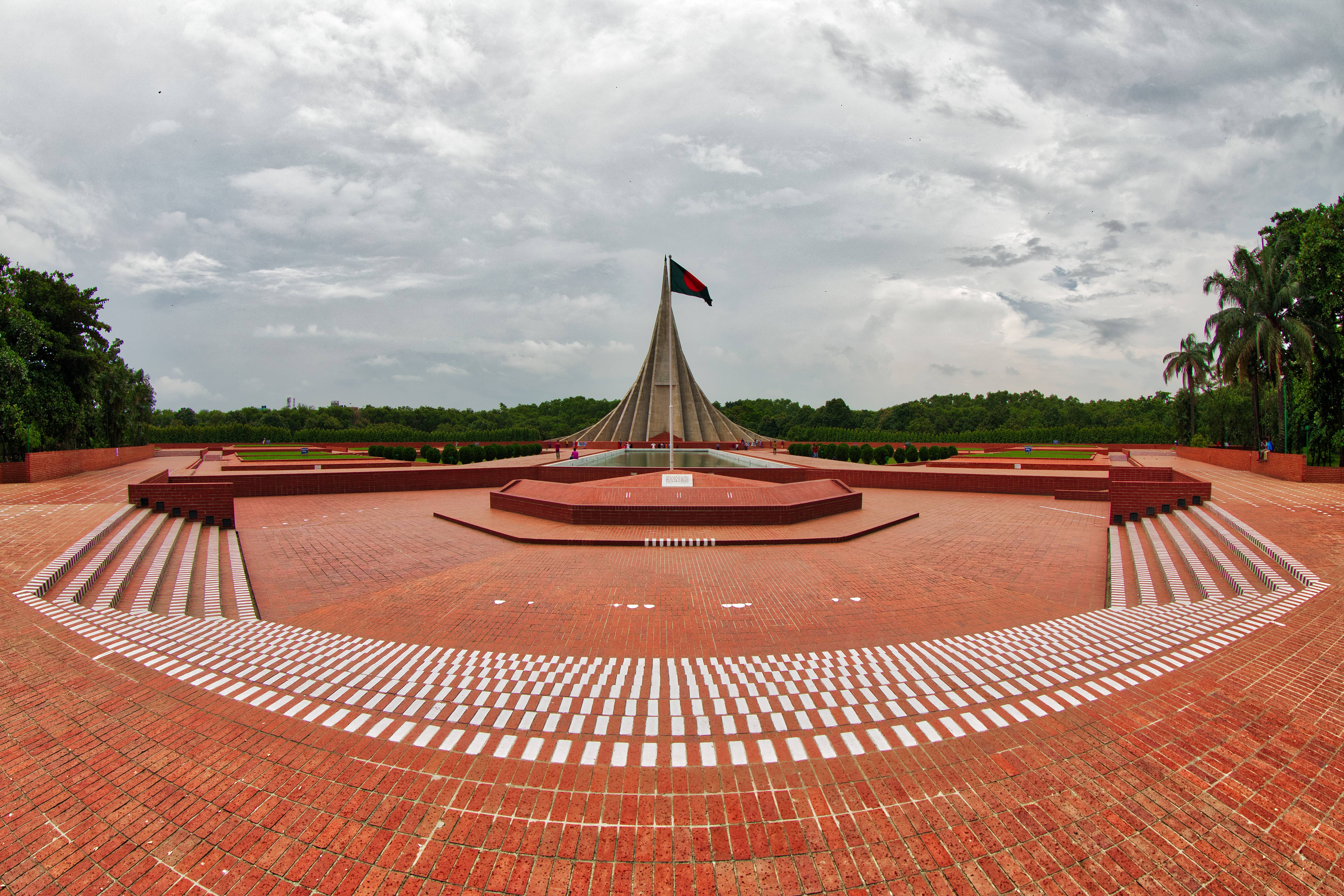 National Martyrs’ Memorial situated in Savar, Bangladesh.